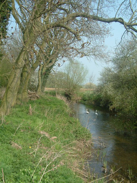 Swans on the River Mease